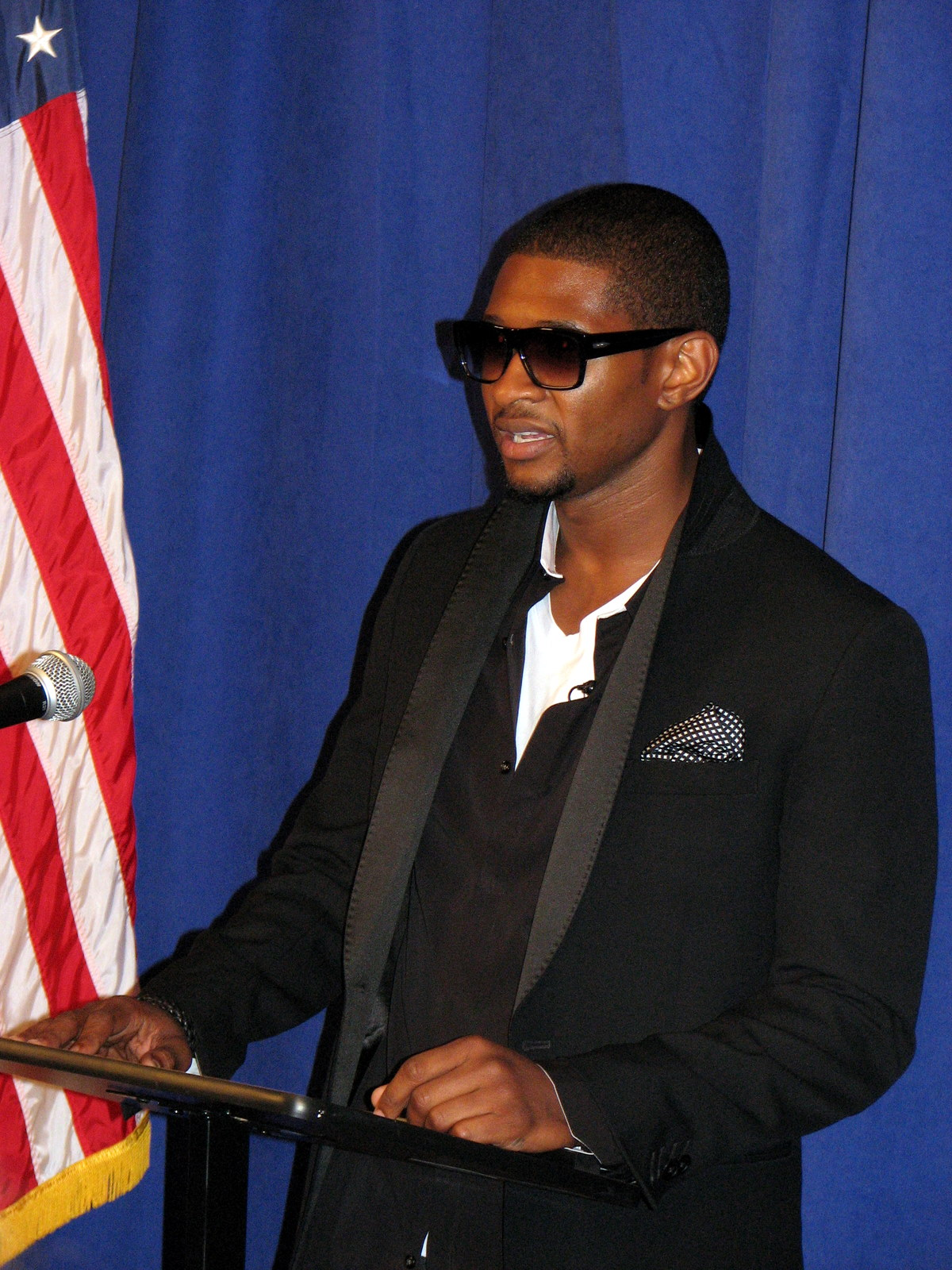 Usher at ServiceNation Summit, New York City